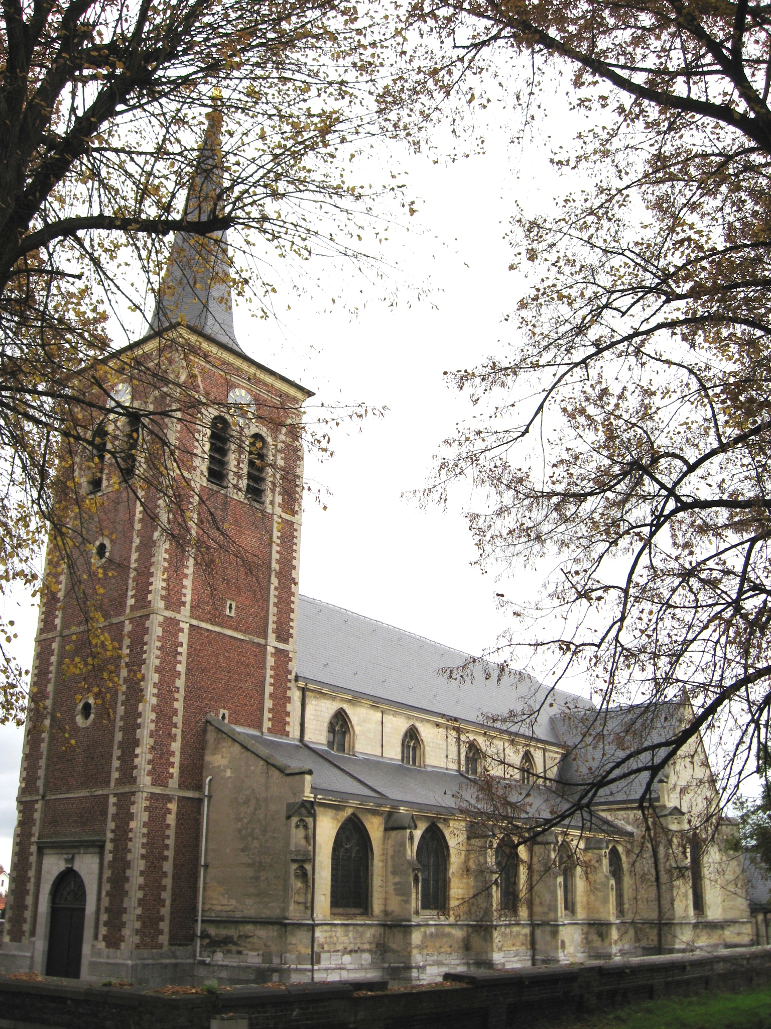 Church of Saint Lambert in Neeroeteren, Maaseik, Limburg, Belgium